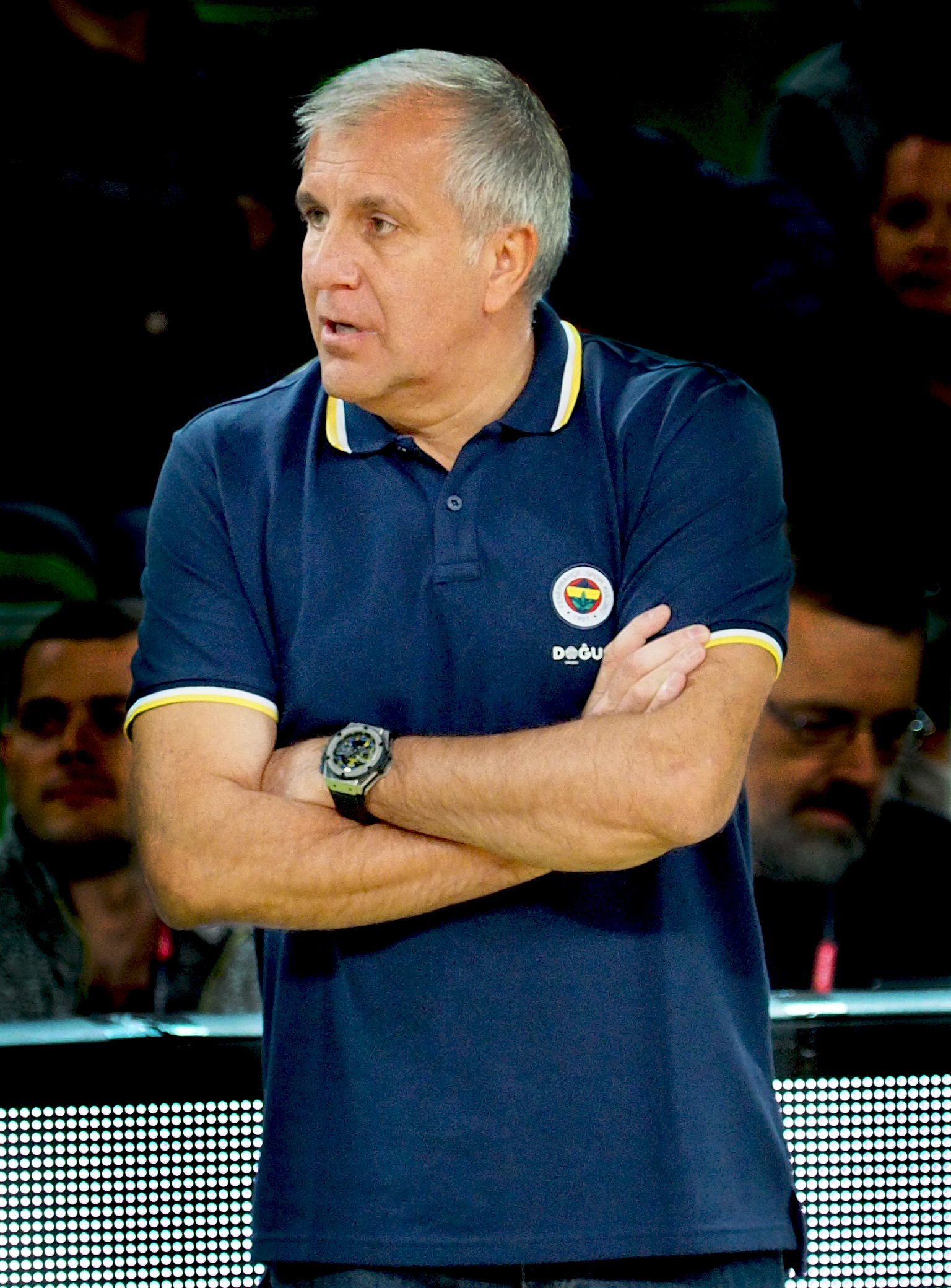 Željko Obradović with Fenerbahçe BC, 2017 This photograph was taken with a Olympus E-M1.